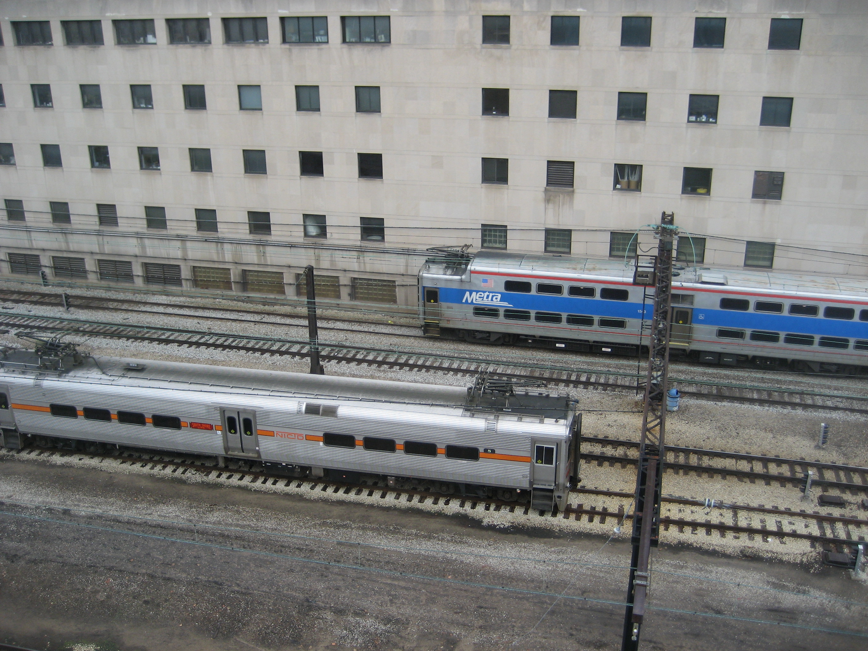 Metra Electric and South Shore Line trains just shy of Millennium Park Station.